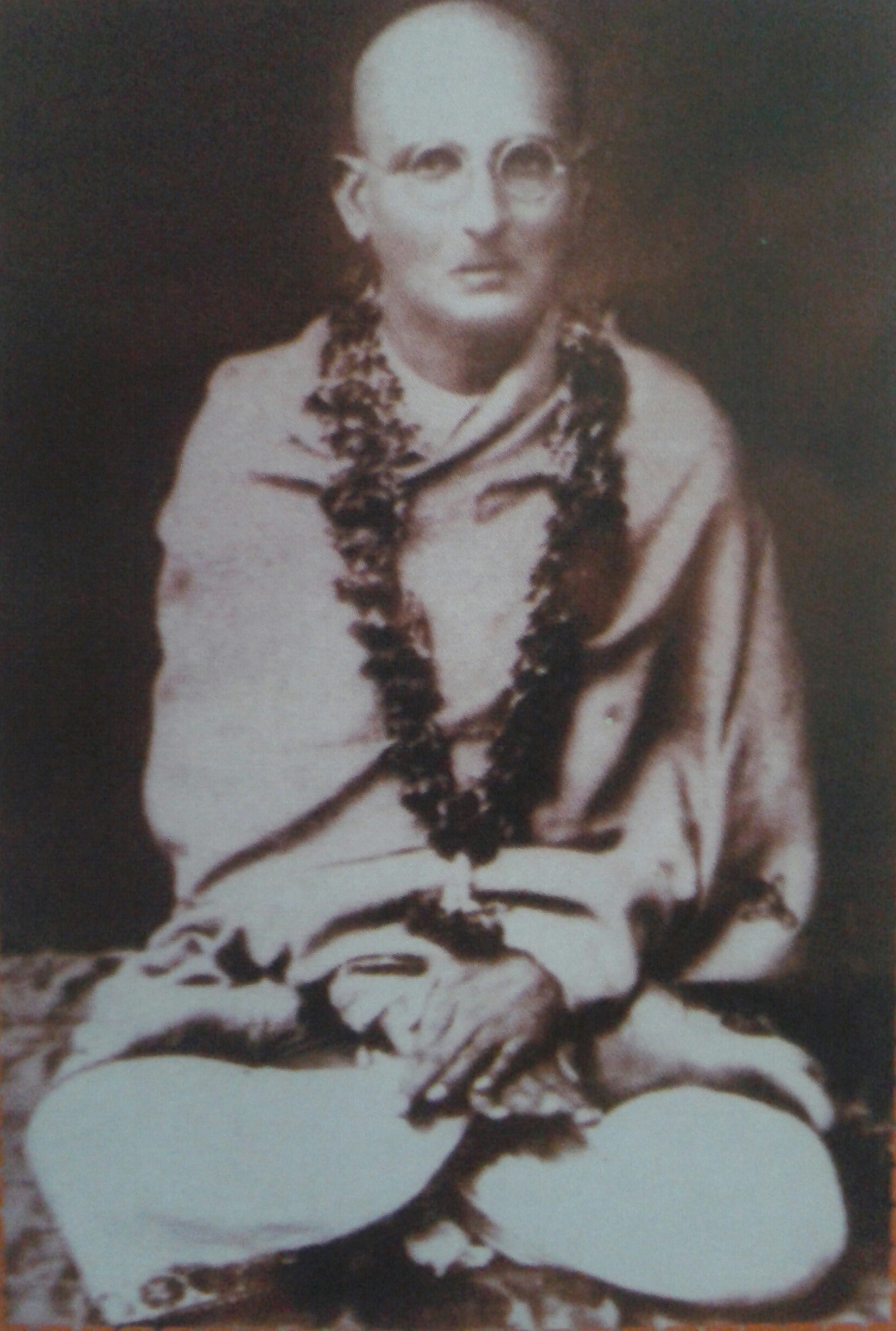 Shri 1008 Swami Swaupanand Ji Maharaj in Tapobhoomi,Agra.